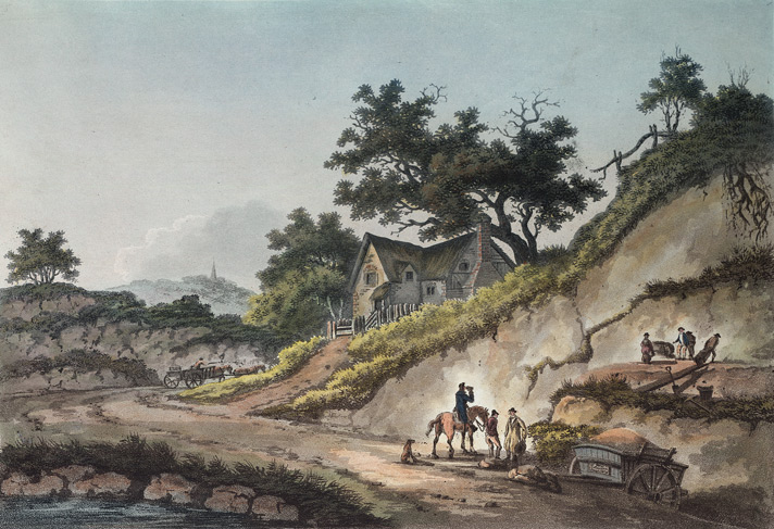 "Sand Pits. View near Harrow on the Hill Middlesex," coloured aquatint, by the British artist and topographic printmaker Francis Jukes. View of a road near Harrow-on-the-Hill, once a small agricultural village in Middlesex. The print shows sand pits in production. In the distance is the spire of St Mary's Church, a local landmark. Courtesy of the British Library, London.